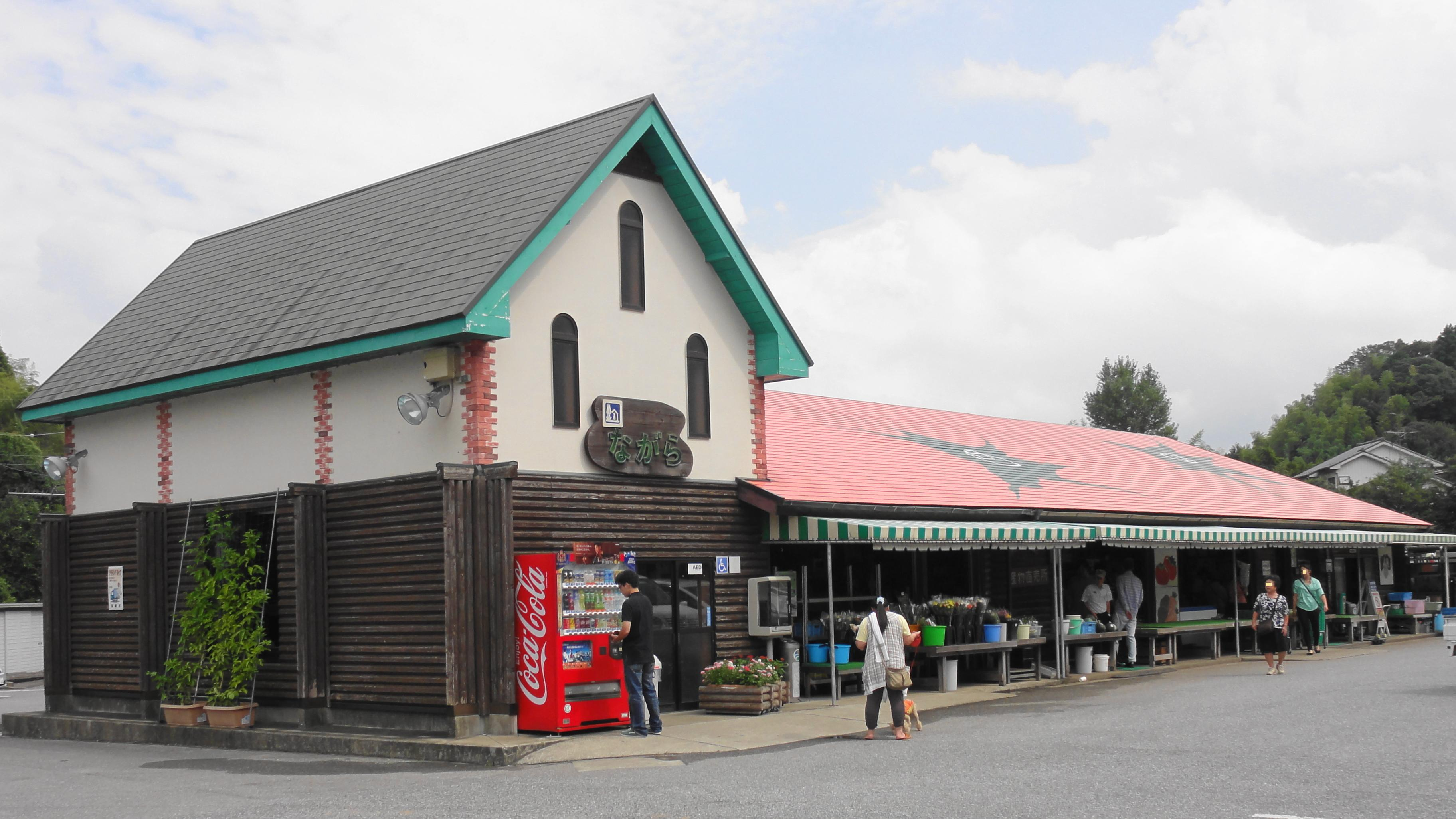 Road to station Nagara ,Chiba prefecture,Japan